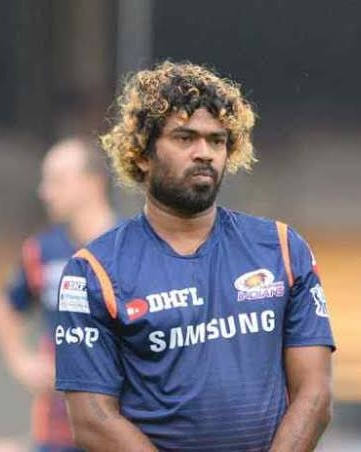 Lasith Malinga practicing for Mumbai Indians